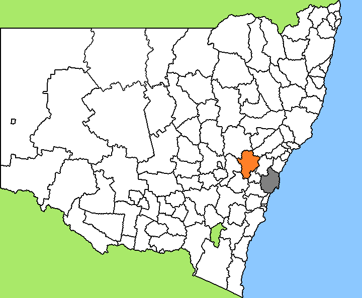 Map of New South Wales/Australia, LGA of the City of Lithgow highlighted